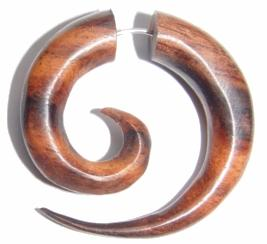 wooden fake plug